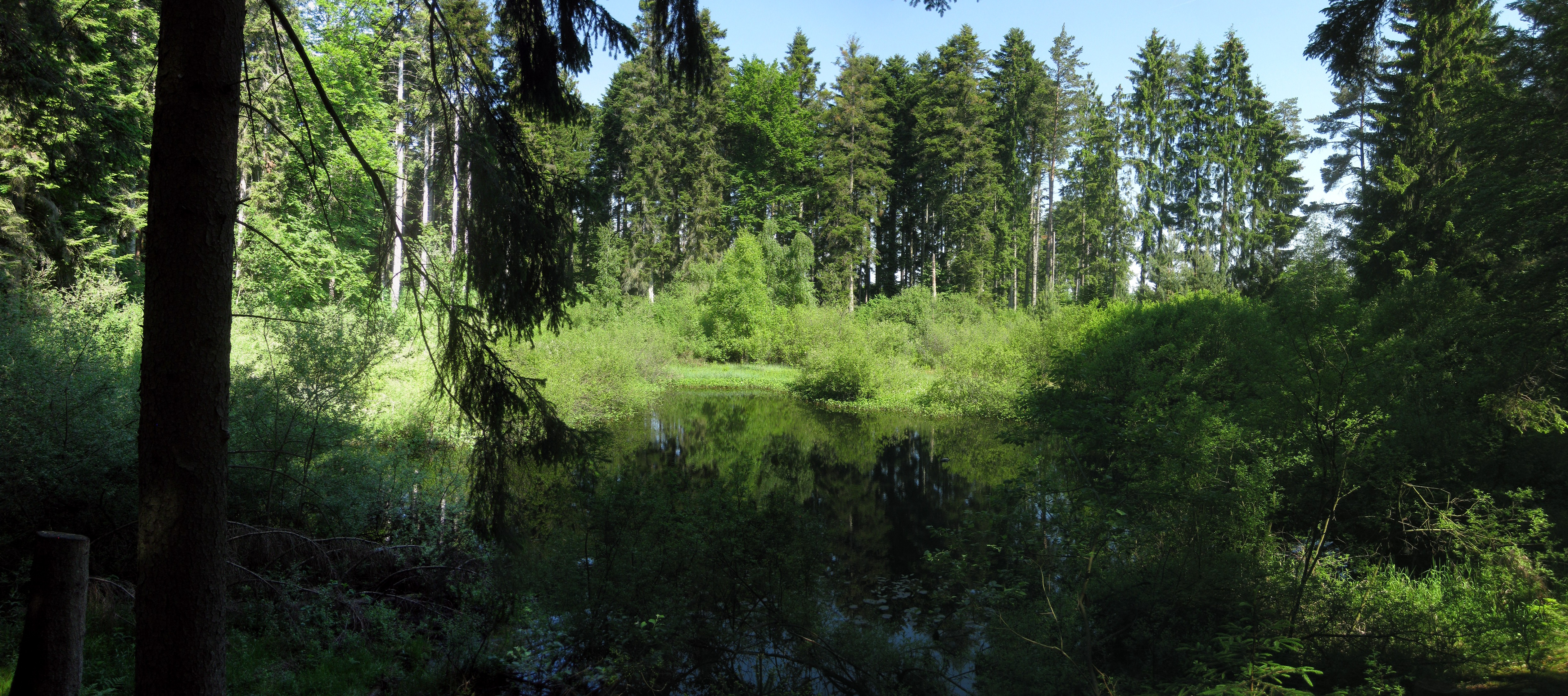 The Bodenloser See (Bottom-less Lake) between the villages of Dettensee and Empfingen. Photograph taken from the southern shore.